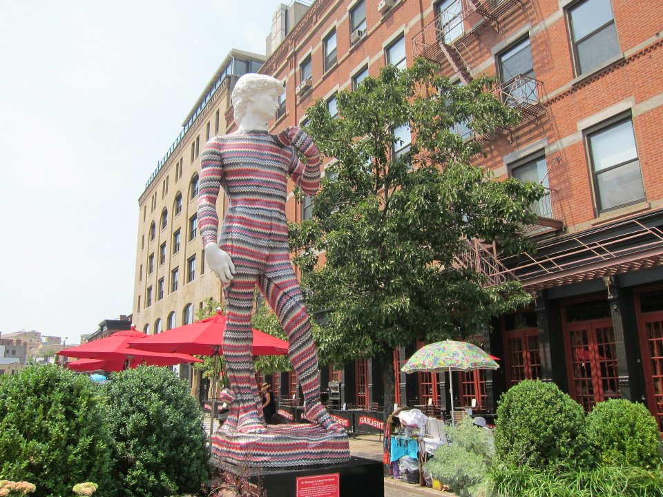 Michelangelo's statue of David (Replica) in painted pajamas, Ninth Avenue 14th Street, Manhattan, New York.